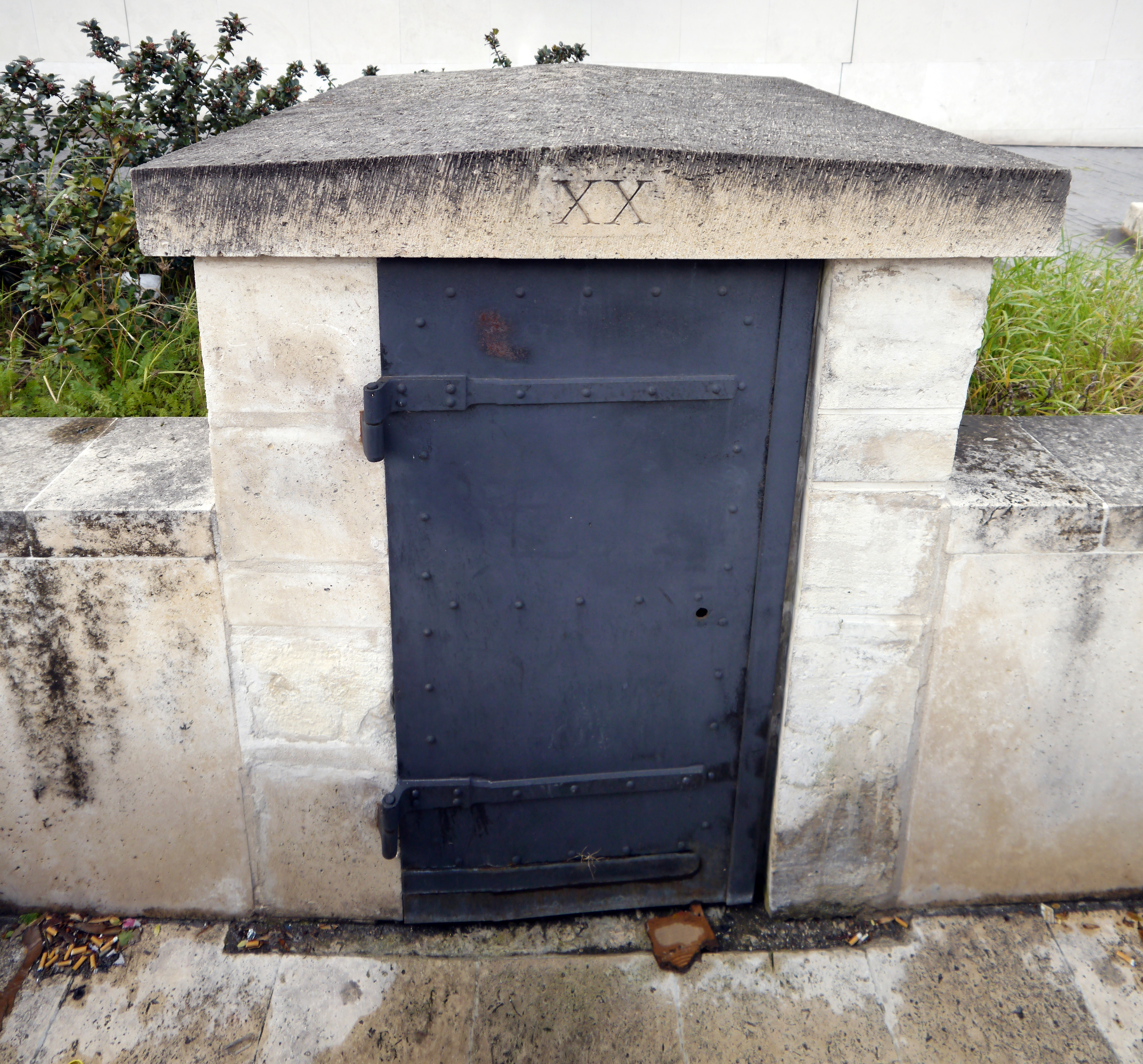 Gentilly, Val-de-Marne, France. Former "Regard de Gentilly", from the Aqueduc Médicis.